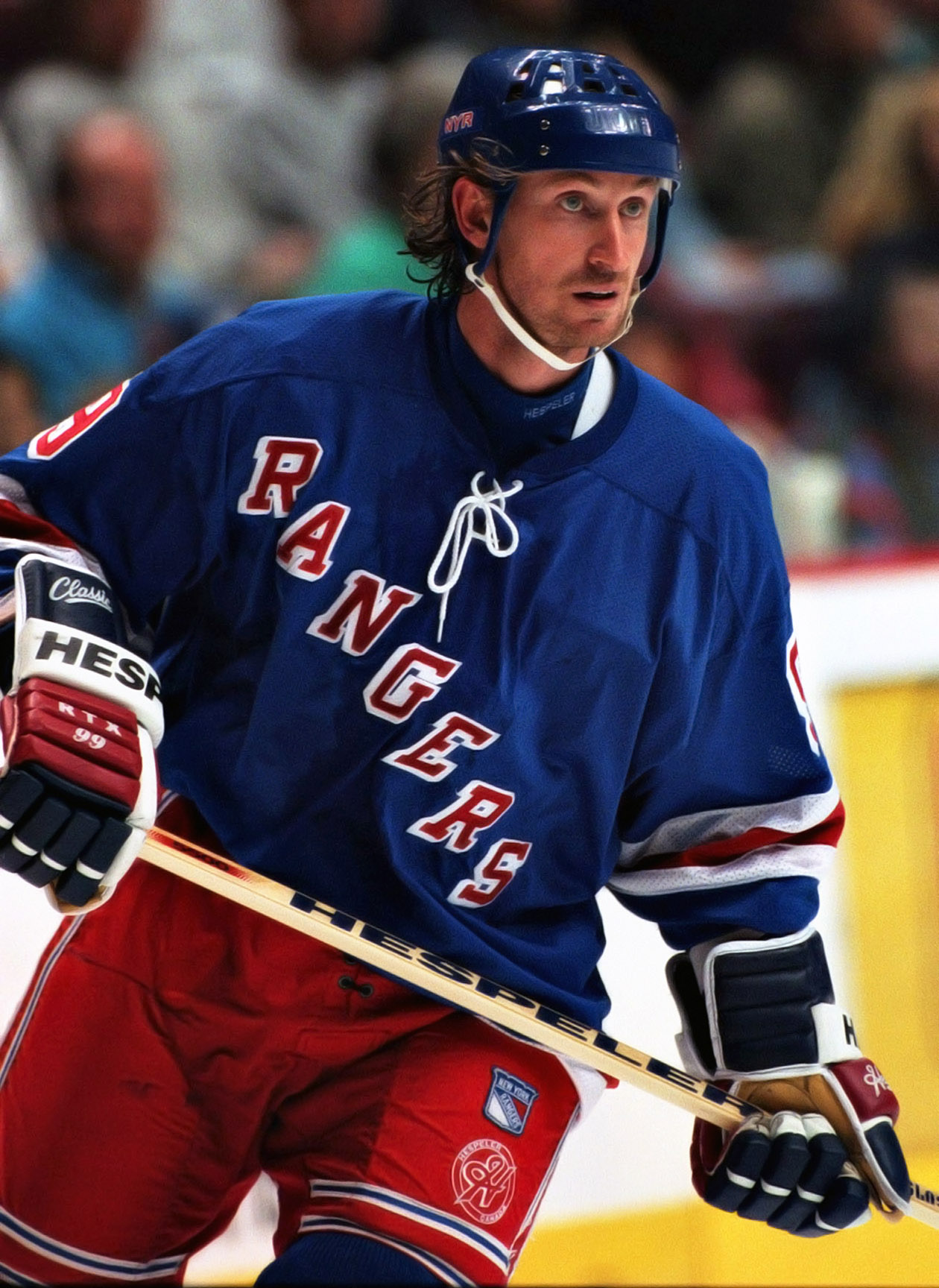 Wayne Gretzky, New York Rangers.